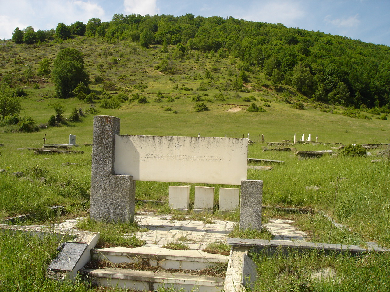 Monument of Macedonian partisans from Polchishte, Macedonia